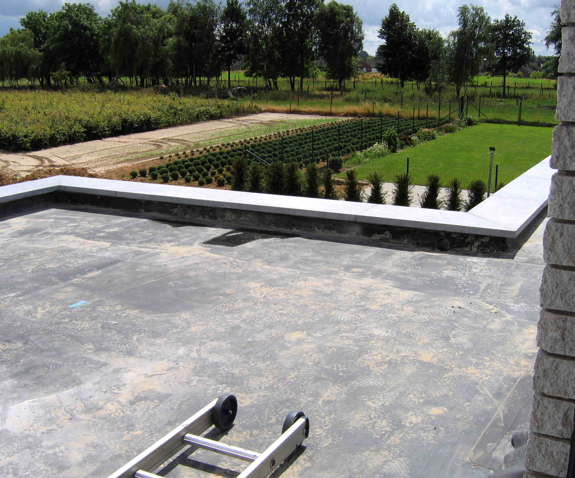 A picture of a roof under construction of which the 2nd roofing layer (EPDM) is being layed. The first layer had been bitumen, yet this layer is now completely covered with the second (EPDM) layer. The EPDM foil comes from Carlisle Co. EPDM foil (used for waterproofing roofs) does not pollute any rainwater running off the foil (unlike other contemporary waterproof foils as bitumen). This allows the rainwater to be used by the house owners for their sanitary requirements (which is too being done by the owners here). To do so, the owners have installed their own rainwater harvesting system